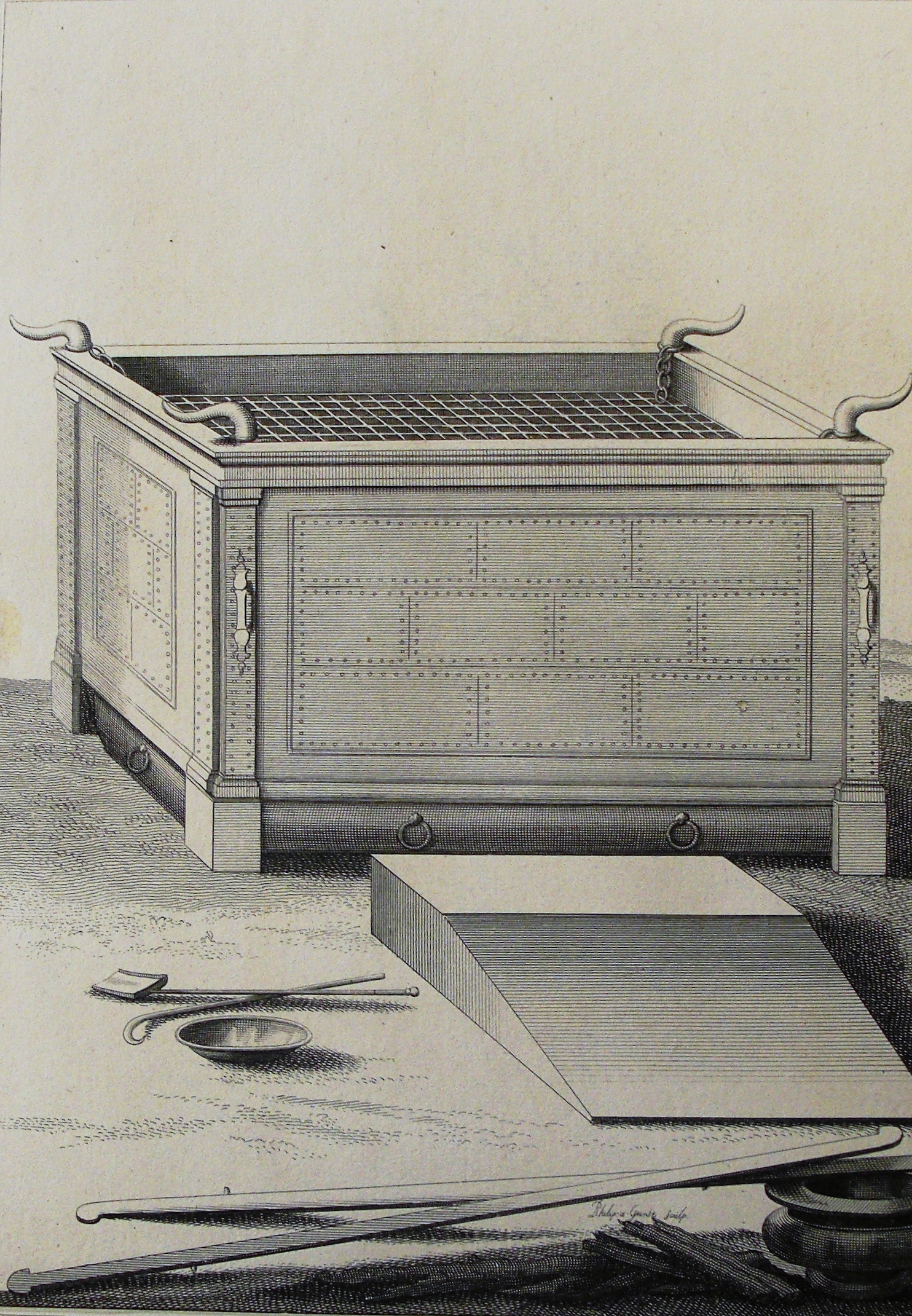 A print from the Phillip Medhurst Collection of Bible illustrations in the possession of Revd. Philip De Vere at St. George’s Court, Kidderminster, England.